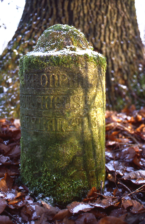 Memorial to Ernest Augustus, Crown Prince of Hanover, from the year 1866 in the Marienberg near the castle Marienburg